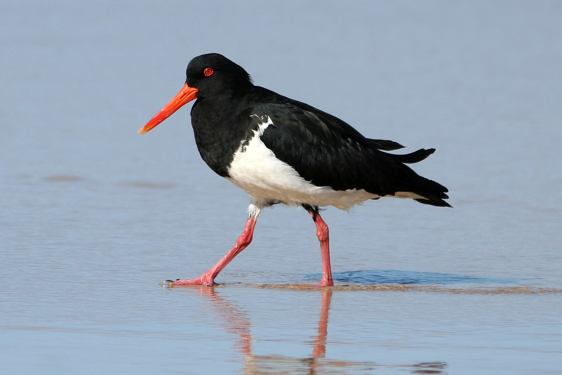 Pied Oystercatcher, Haematopus longirostris